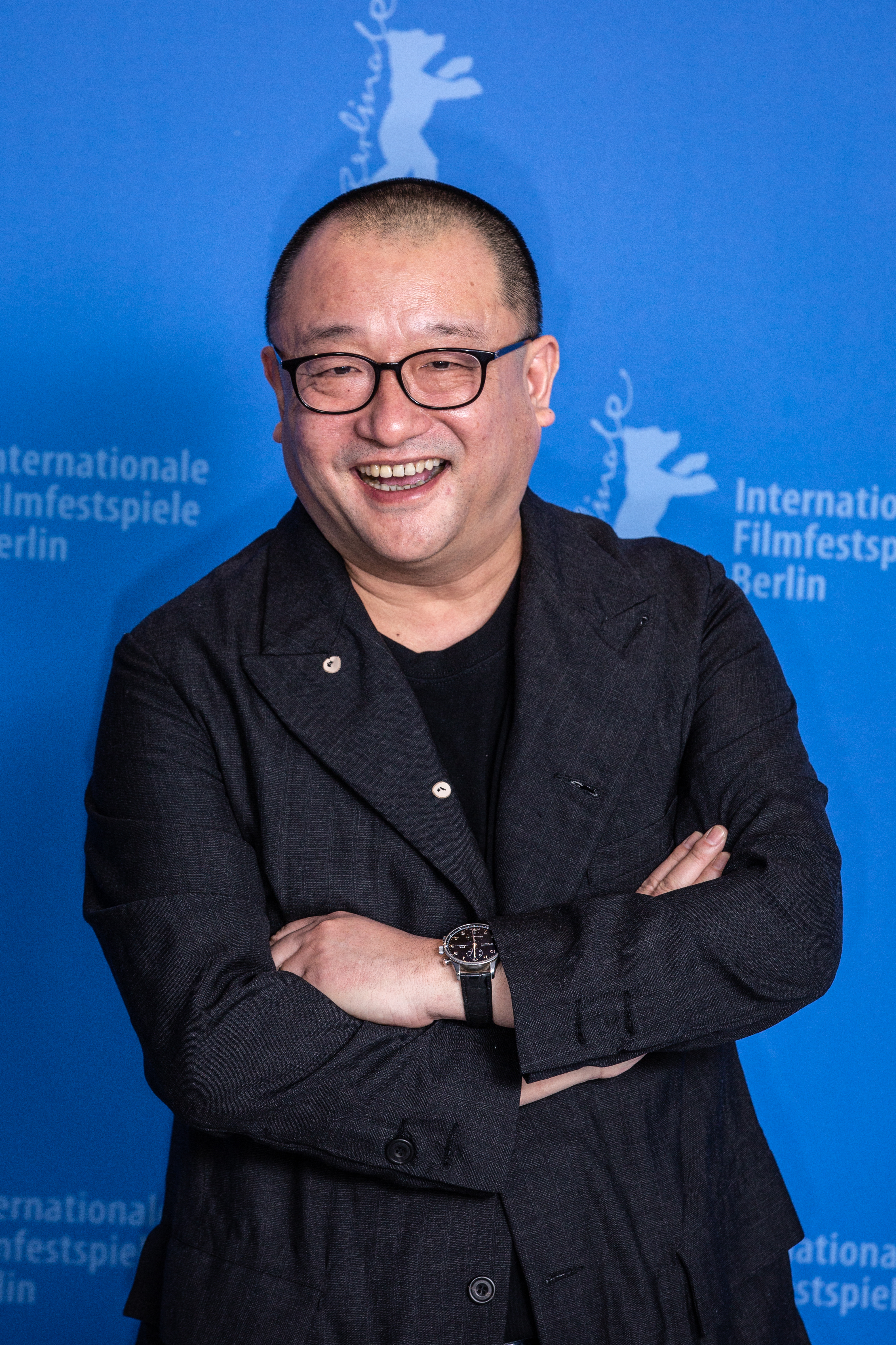 Film director Wang Xiaoshuai at the Berlinale 2019